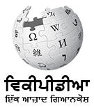 Logo of the Punjabi Wikipedia